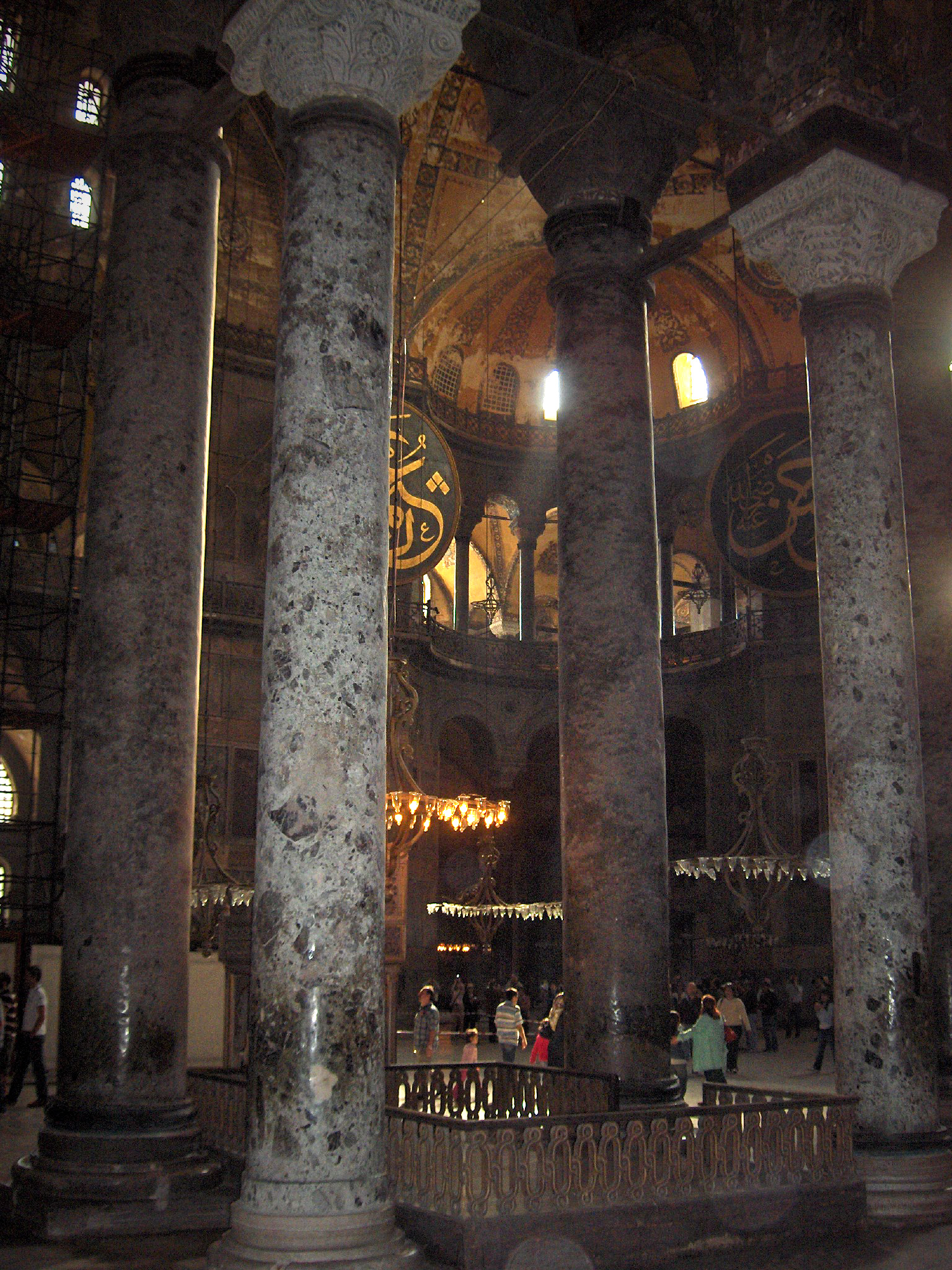 Hagia Sophia ; inside view : columns (southern section); Istanbul, Turkey